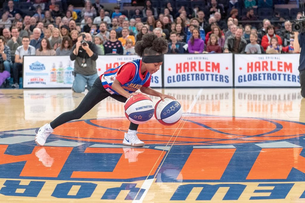 Samaya performing dribbling tricks with Harlem Globetrotters